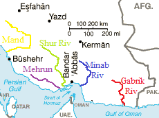 Map of rivers in South Iran (note: Kol River is mislabeled as "Shur River", and Kahir as "Gabrik". Location of Mand River is not correct.)